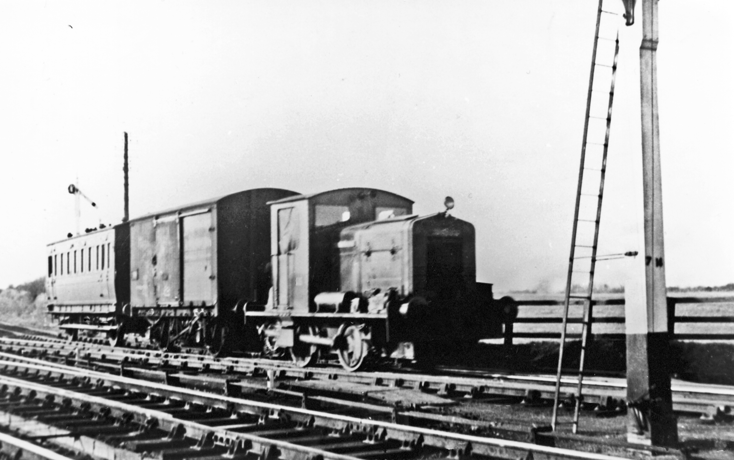 North Sunderland Railway mixed train from Seahouses at Chathill, 1939View NW, with the NSR branch just visible on the left, curving in from Seahouses. The locomotive is the Diesel-electric 0-4-0 'Lady Armstrong', built by Armstrong-Whitworth in 1934, withdrawn 1946. The line lasted until 27/10/51.